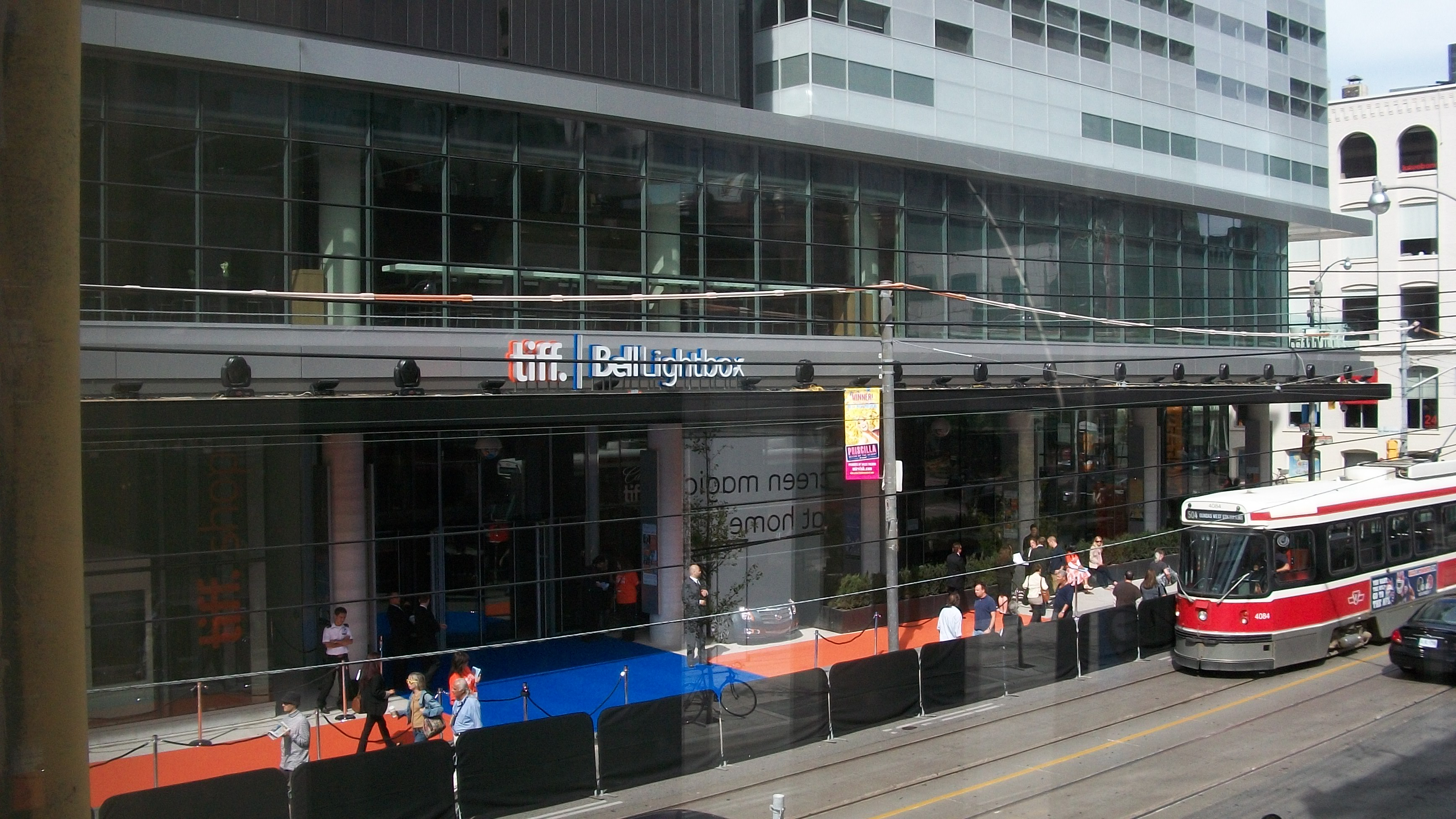 TIFF Bell Lightbox, one day before its official opening, shot from Dhaba Restaurant across the street.